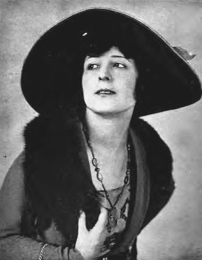 Ethel Grey Terry